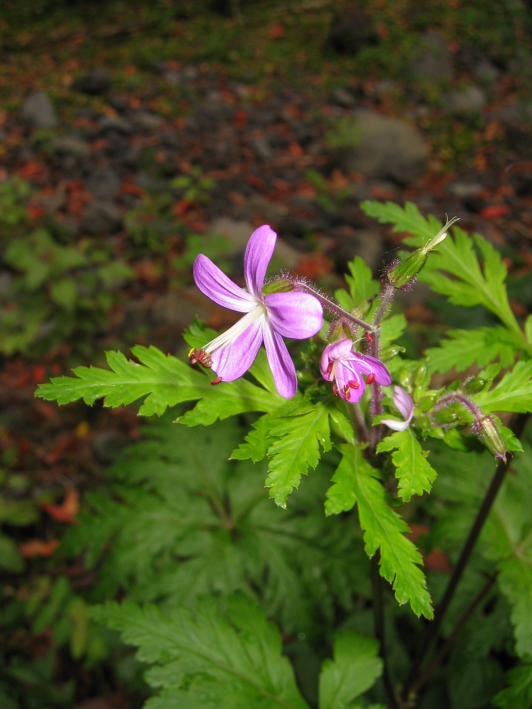 Geranium canariense, Cubo de la Galga, La Palma, Spain